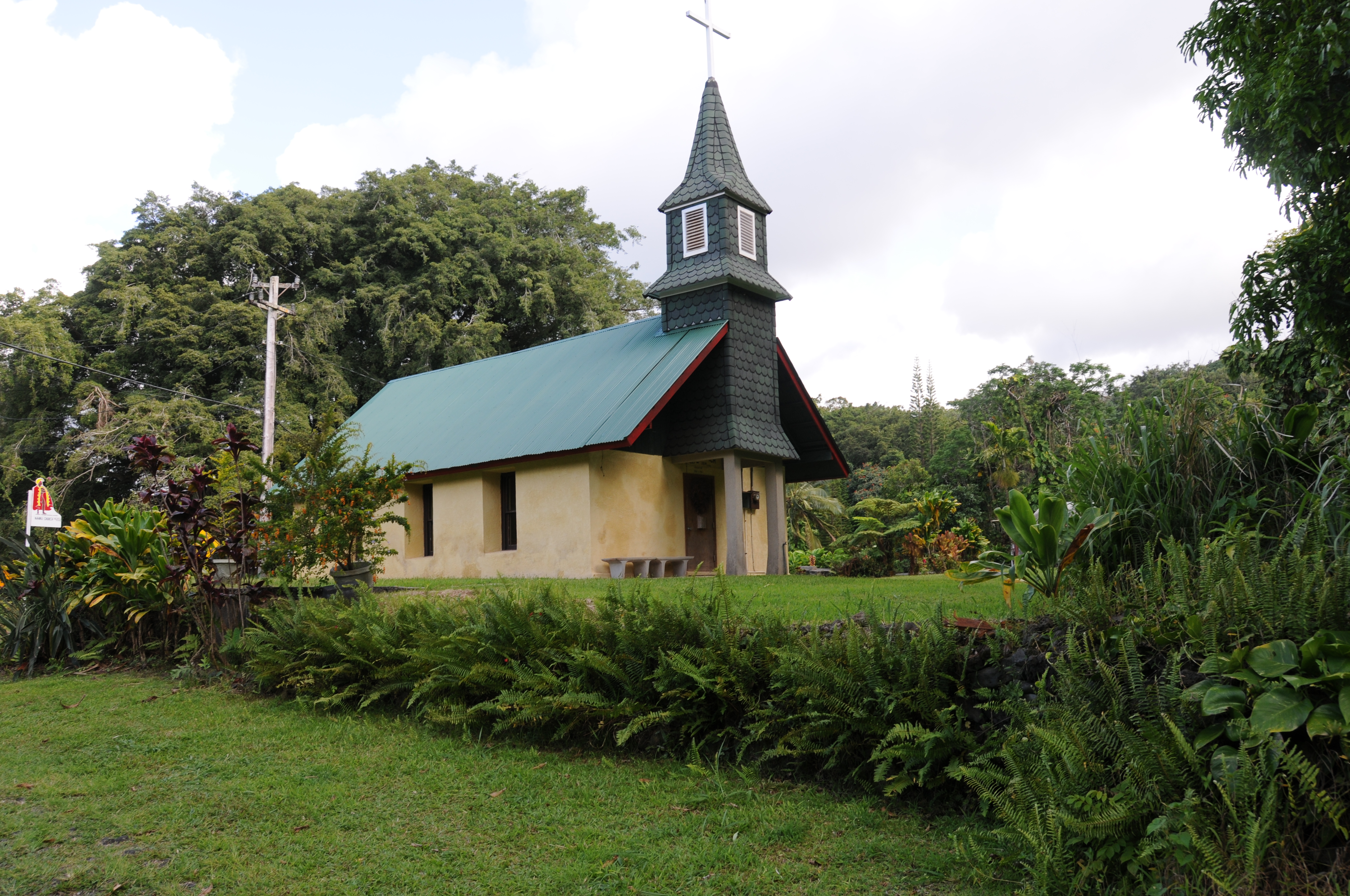 Church is the main building in Nahiku, Maui, Hawaii.